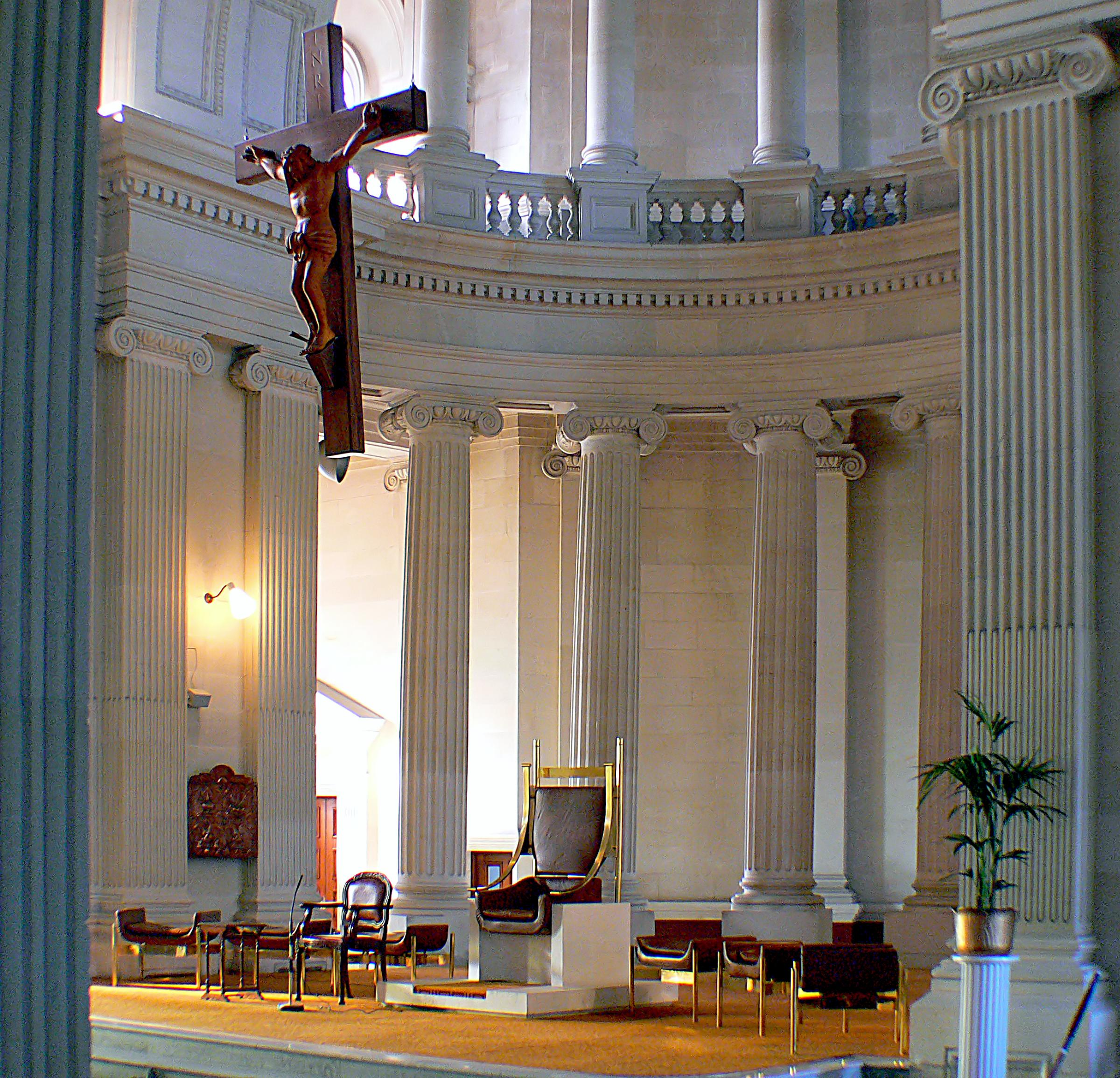 The Cathedral of the Blessed Sacrament (popularly known as the Christchurch Basilica[1]) is located in the city centre of Christchurch, New Zealand. It is the mother church of the Roman Catholic Diocese of Christchurch and seat of the Bishop of Christchurch. It was designed by architect Francis Petre. The Cathedral was closed after the 4 September 2010 Canterbury earthquake. The February 2011 Christchurch earthquake collapsed the two bell towers at the front of the building and destabilised the dome.[2] The dome was removed and the rear of the Cathedral was demolished.[3] In May 2015 an investigation was launched into whether the largely undamaged nave could be retained as part of an otherwise new building